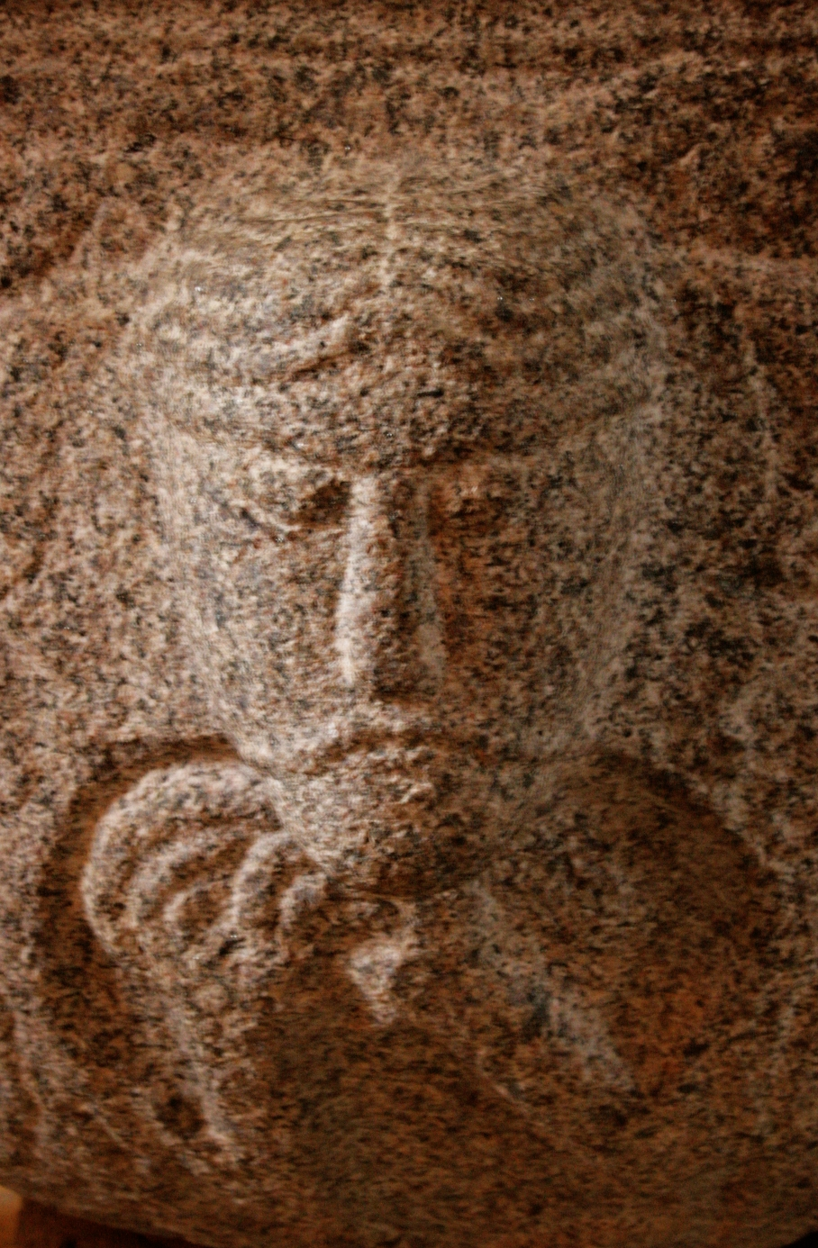 Male head on the granite baptismal font at Todbjerg Church, easter Jutland, Denmark. Presumably the font was carved about 1130, so the face is showing beard- and hairstyle in early, Danish Middle Ages.